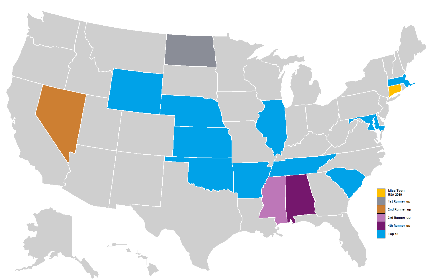 Results by each U.S state and the District of Columbia on the Miss Teen USA 2019 competition.